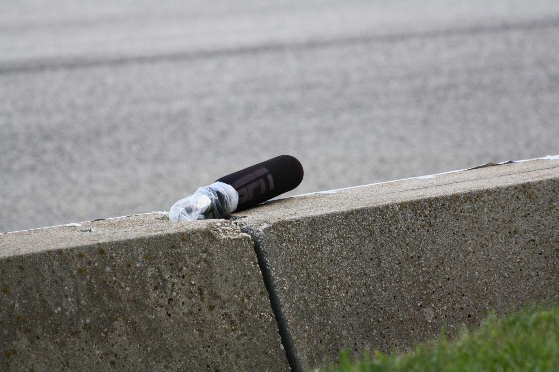 A microphone trackside at Road America for the ESPN coverage of the track's first NASCAR Nationwide Series race in 2010.